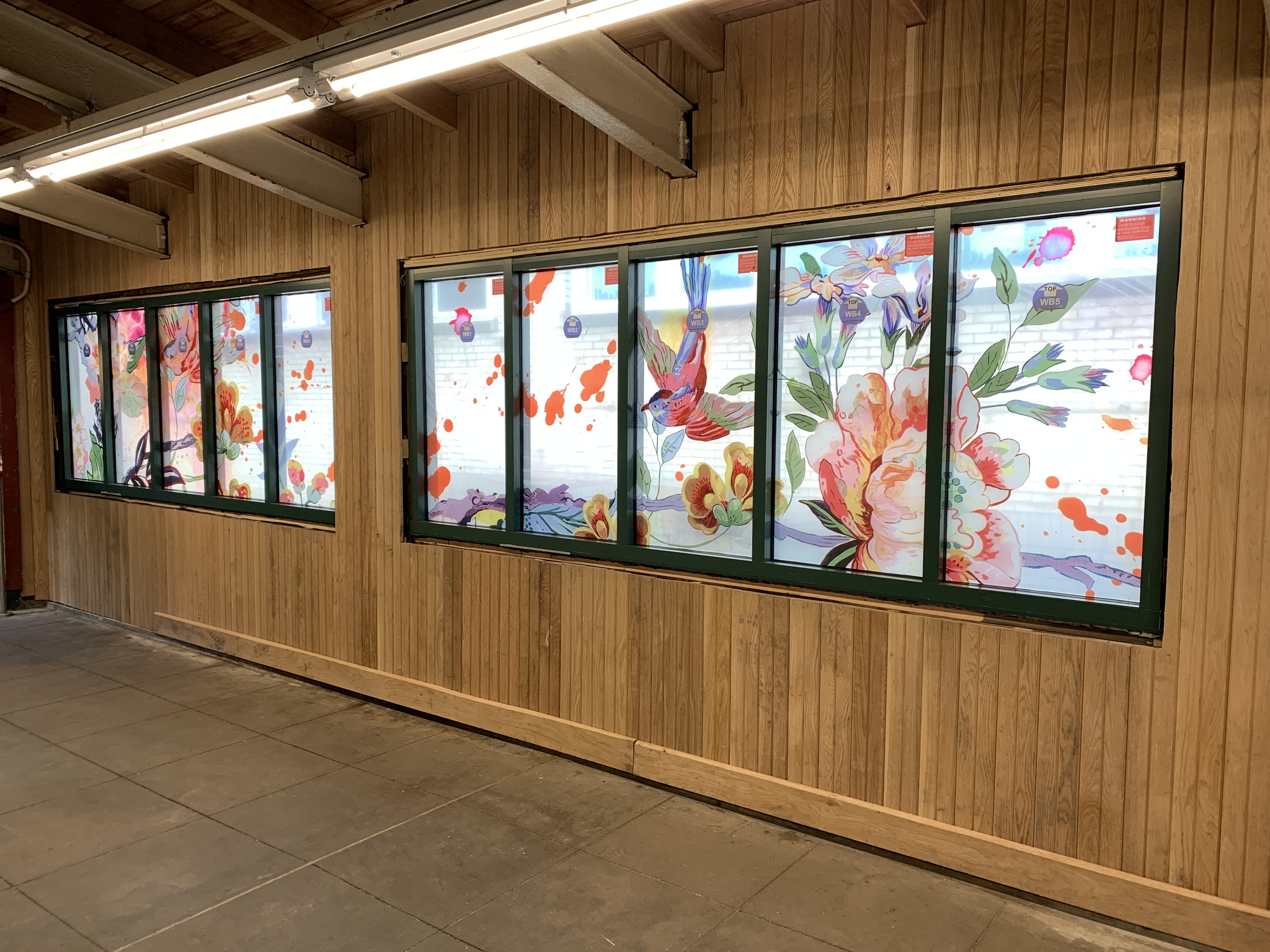 MTA commission, west window looking north